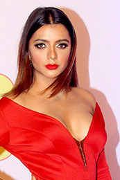 Ruhi Singh graces the 10th Mirchi Music Awards on January 29, 2018.